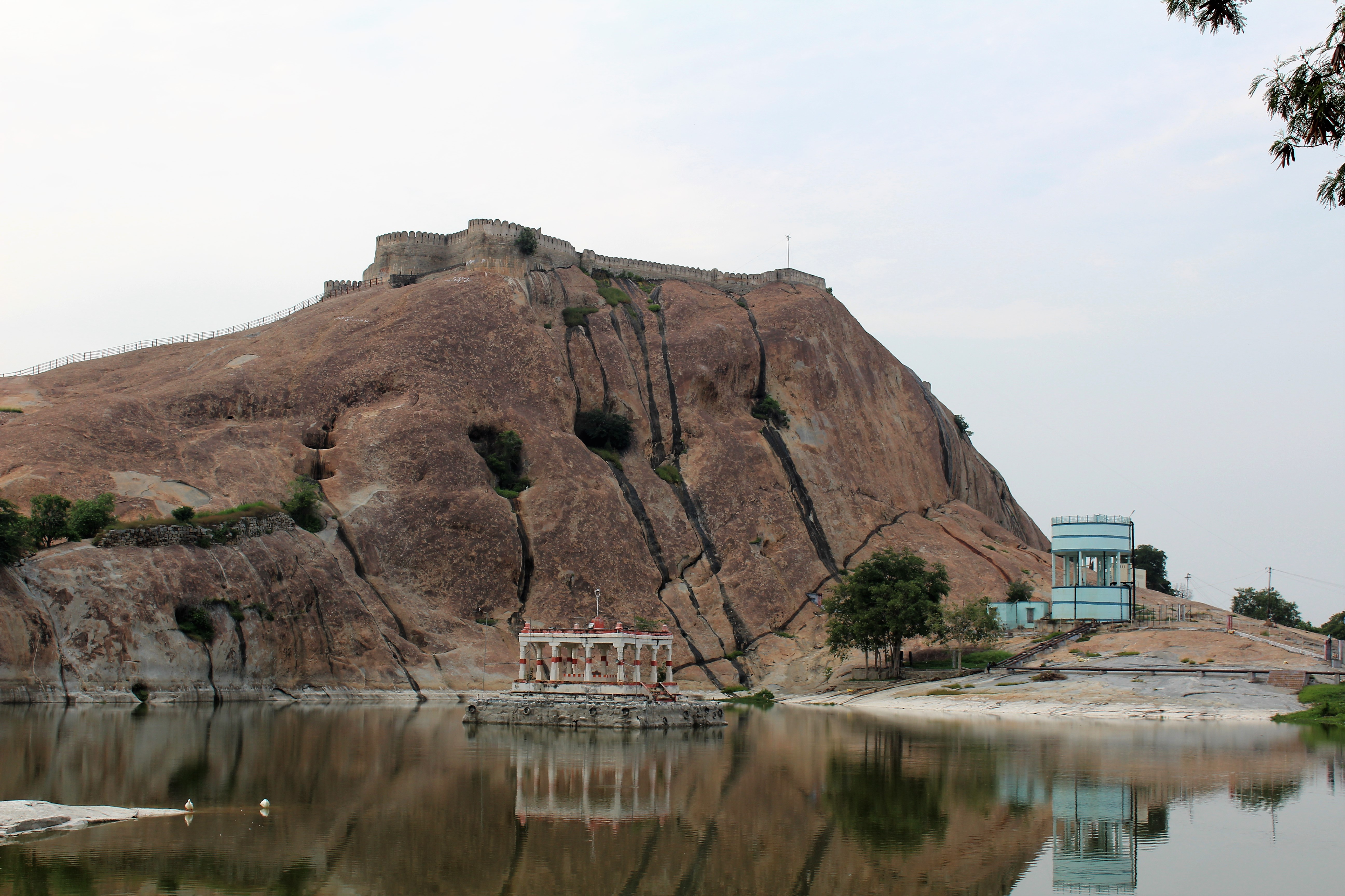 Namakkal Fort